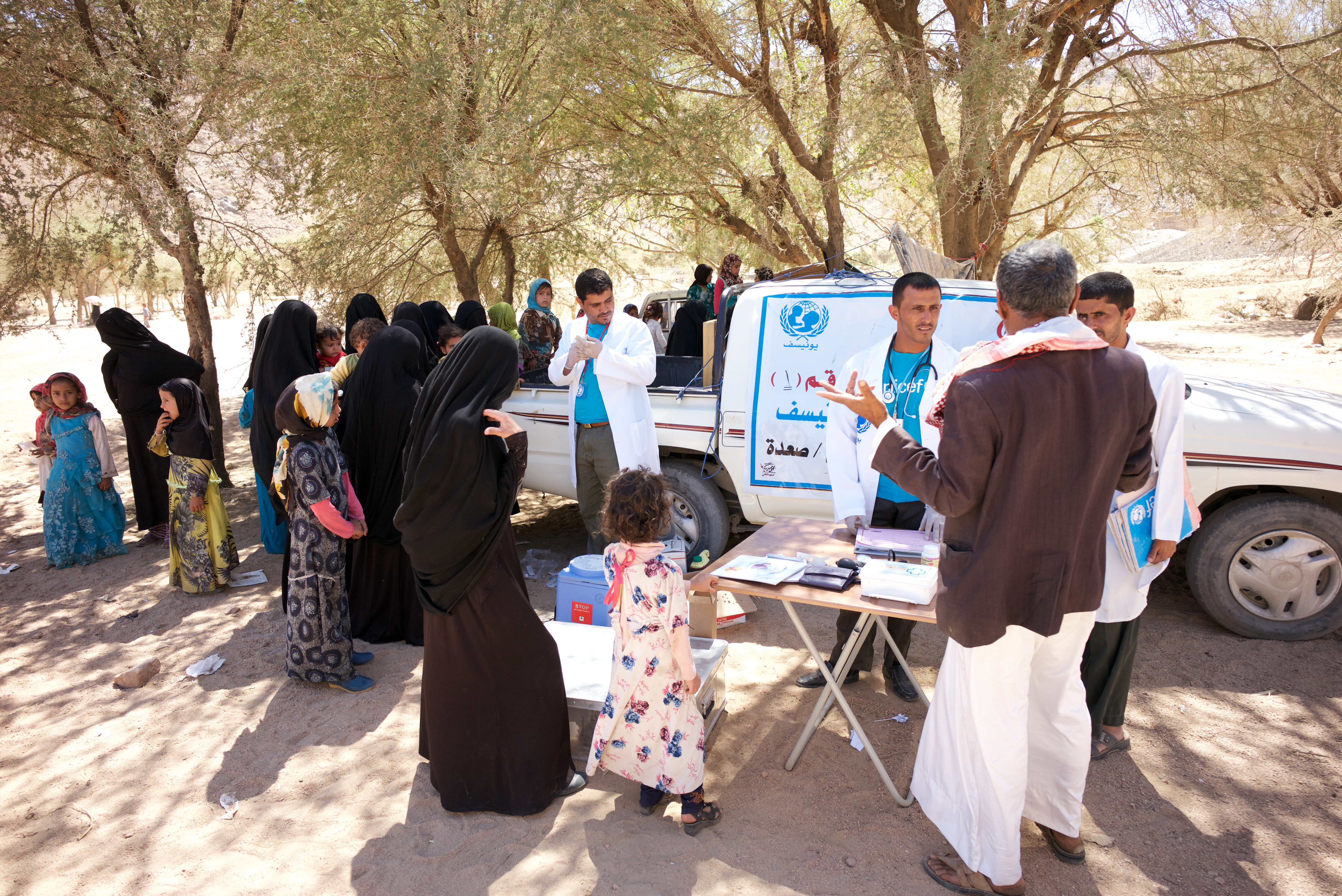 In Sadah in the north and in Taiz in the centre of Yemen, the fighting makes it dangerous for families to go to health centres to get children vaccinated, for expecting mothers to get check ups or for children to be treated for malnutrition and other illnesses. I could see this on the way to Follah in Sadah governorate, along the main roads were mile after mile of bombed out buildings. When we branched off on to dirt tracks into the small wadi the destruction was much less but there were also no government health centres. In Follah we were providing with the local health service a mobile clinic for families, it offered vaccination, nutrition, and medicines for common childhood illnesses. A very popular and appreciated service.